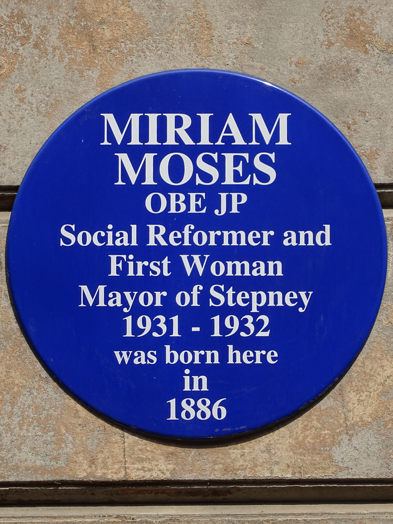 Blue plaque at 17 Princelet Street London E1 6QH